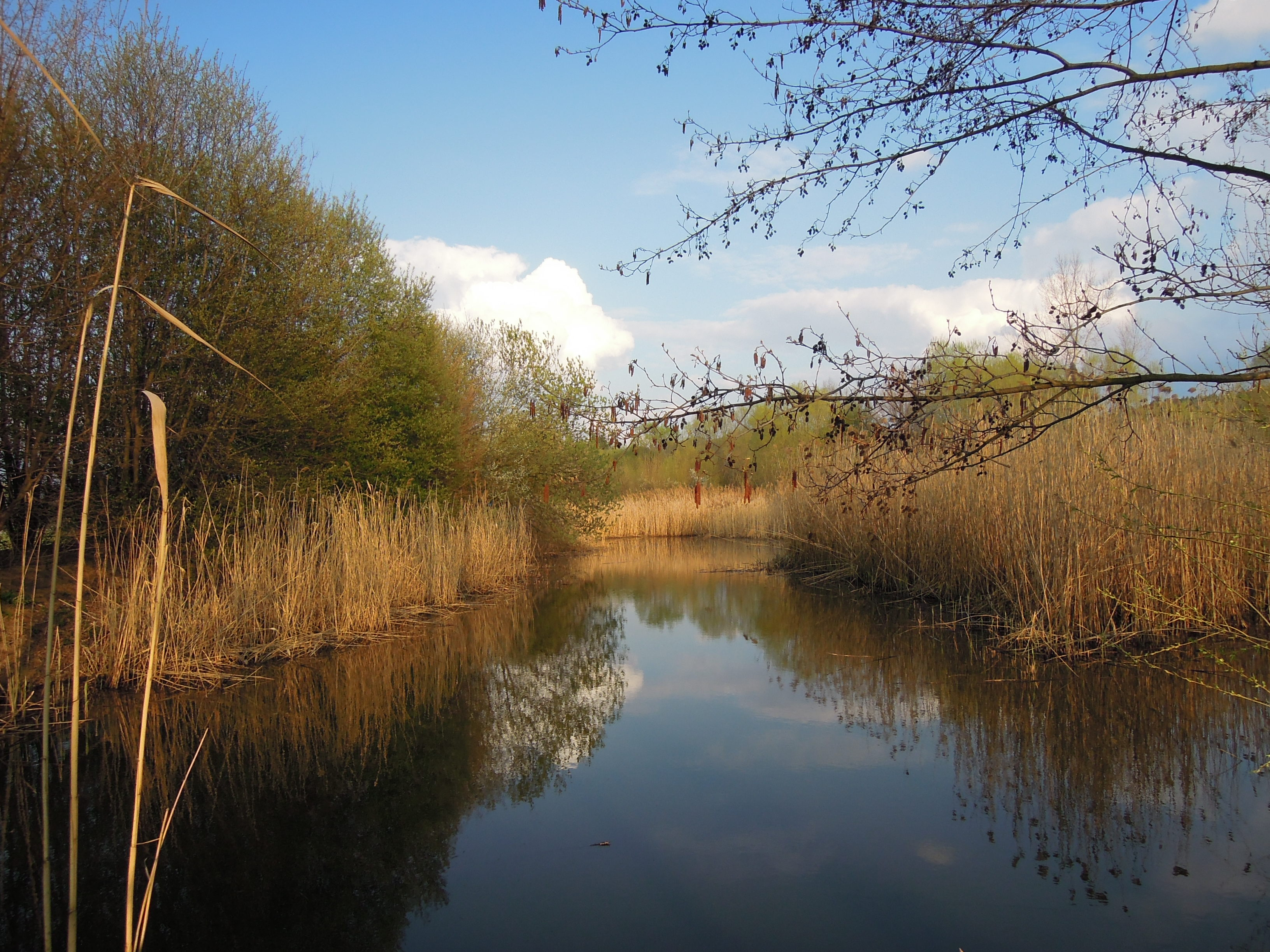 Rákosina ve Stříteži nad Bečvou natural monument in Střítež nad Bečvou, Vsetín District, Zlín Region, Czech Republic